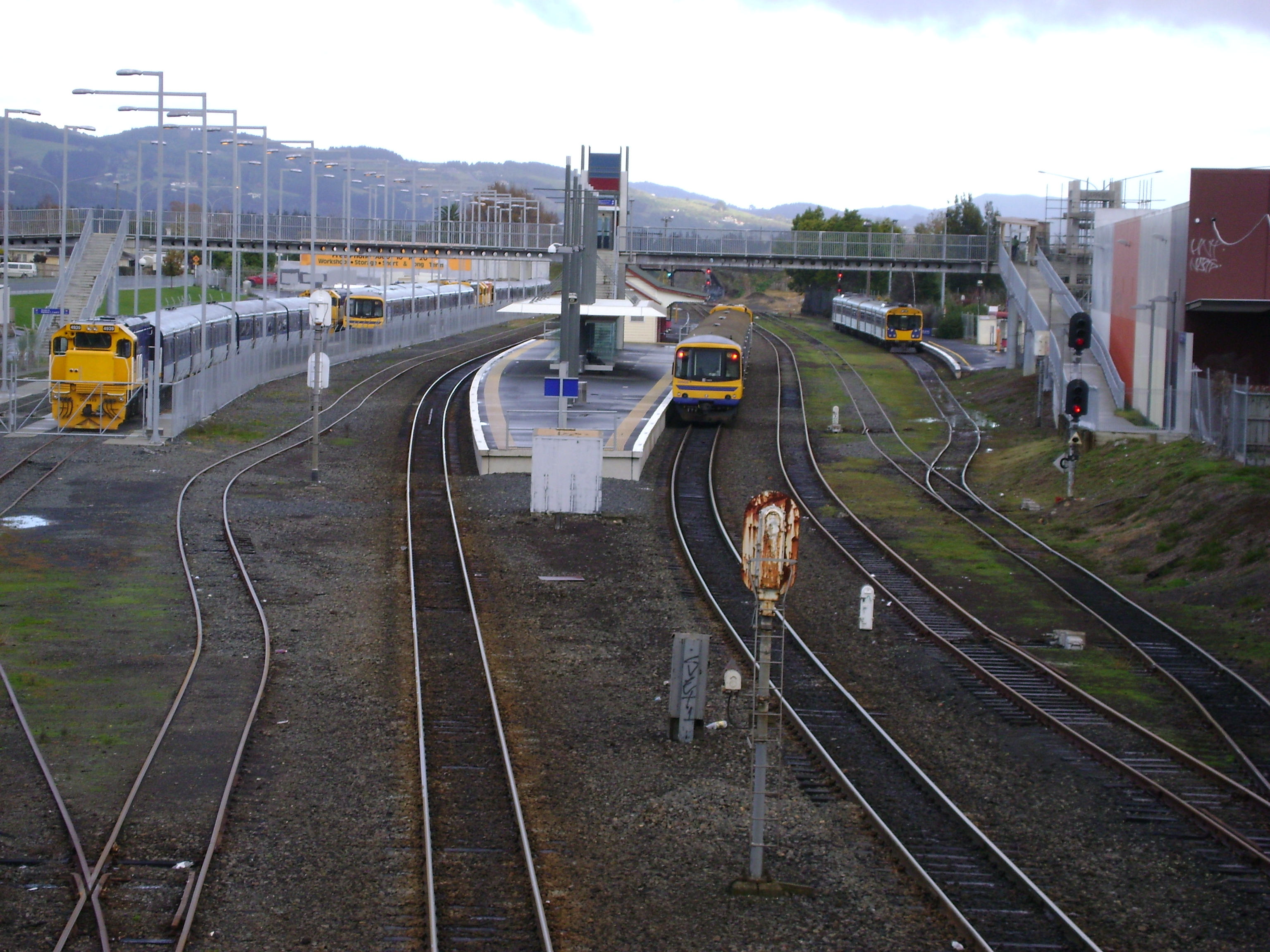 An overview of the Papakura Railway Station, taken from the Clevedon Road overbridge